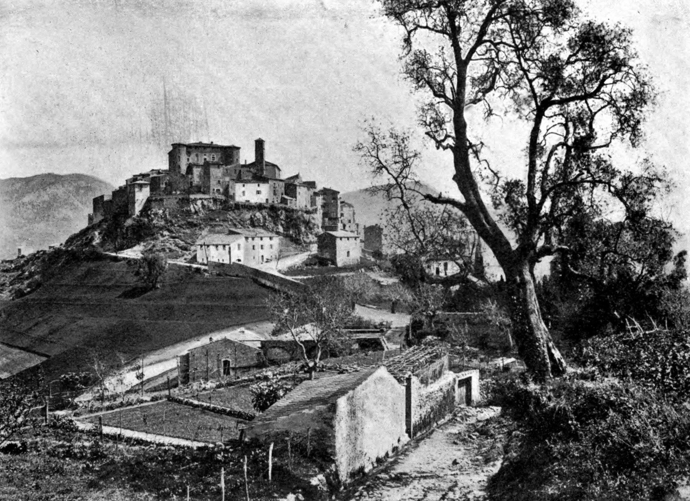 Image from a scanned version of the book "A Book of the Riviera" by Sabine Baring-Gould from Image has been cropped and sepia tone removed.